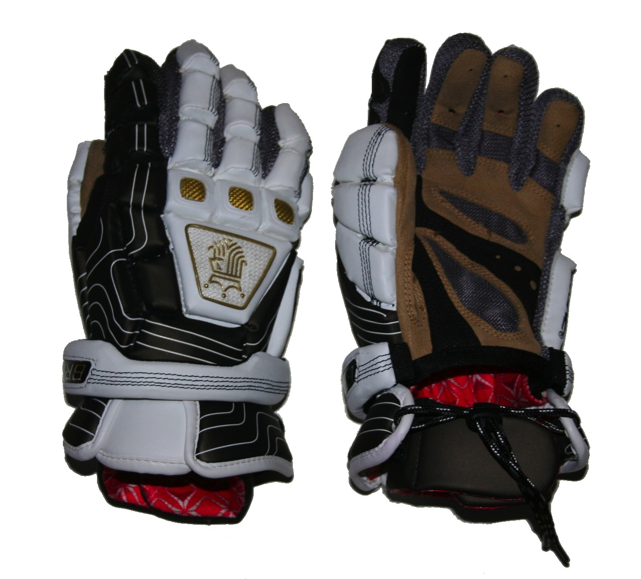 Brine lacrosse gloves